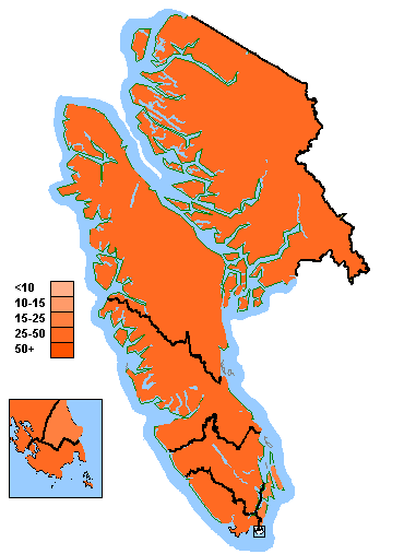 Map made by uploader (User:Earl Andrew); see [1] (question about source) and [2] (response).